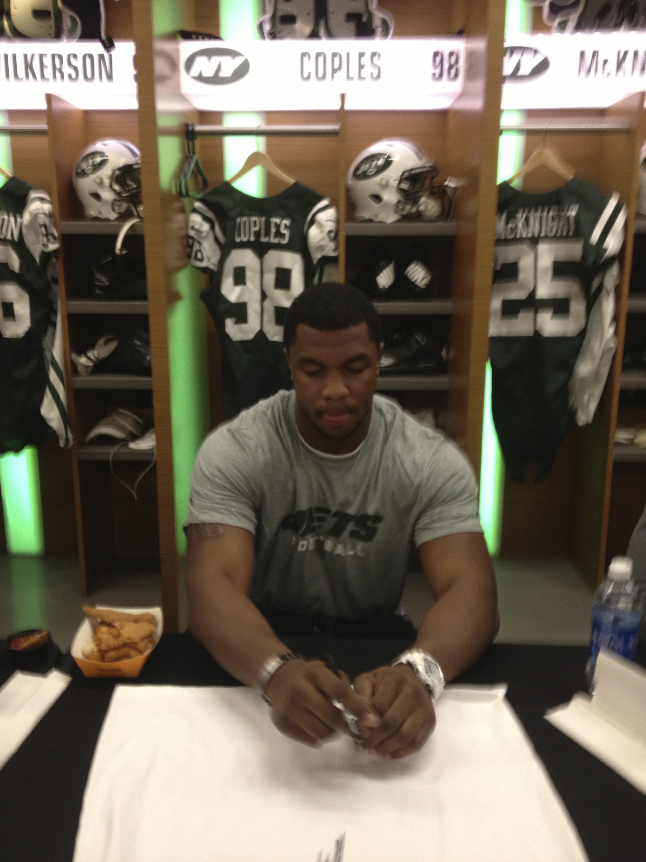 Quinton Coples signing autographs at the NY Jets Draft Party in the locker room of MetLife Stadium on April 25, 2013.